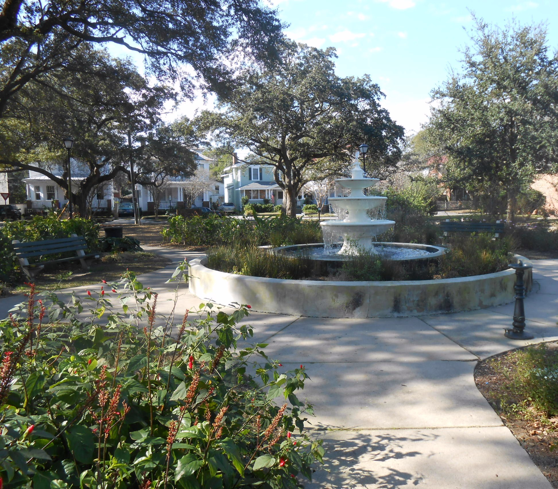 Allan Park, Charleston, South Carolina